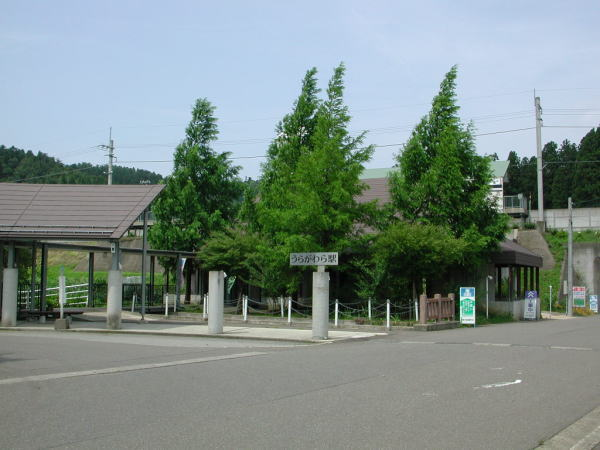 Urawagawa Station in Jōetsu, Niigata Prefecture, Japan